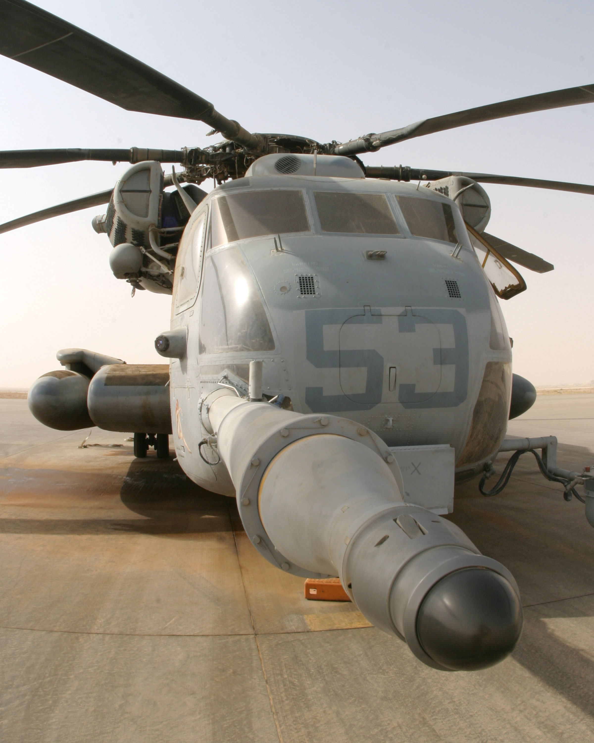 A CH-53E Super Stallion helicopter from Marine Heavy Helicopter Squadron 466 sits on the flight line at Al Asad Air Base, Iraq, on Sept. 6, 2007. DoD photo by Lance Cpl. James F. Cline III, U.S. Marine Corps. (Released)